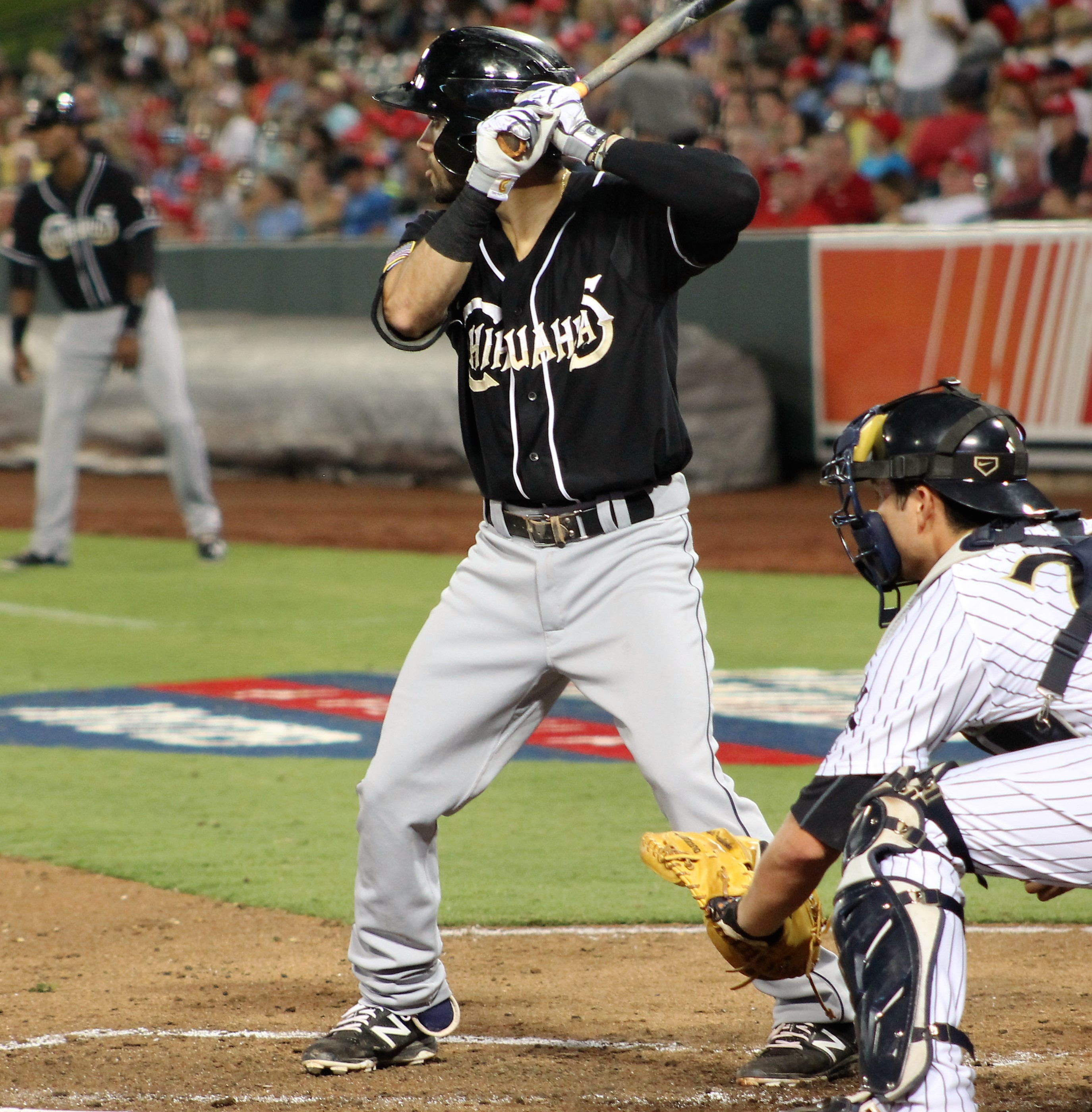 Carlos Asuaje, a professional baseball player, bats during the Gildan Triple-A Baseball Championship in September 2016.